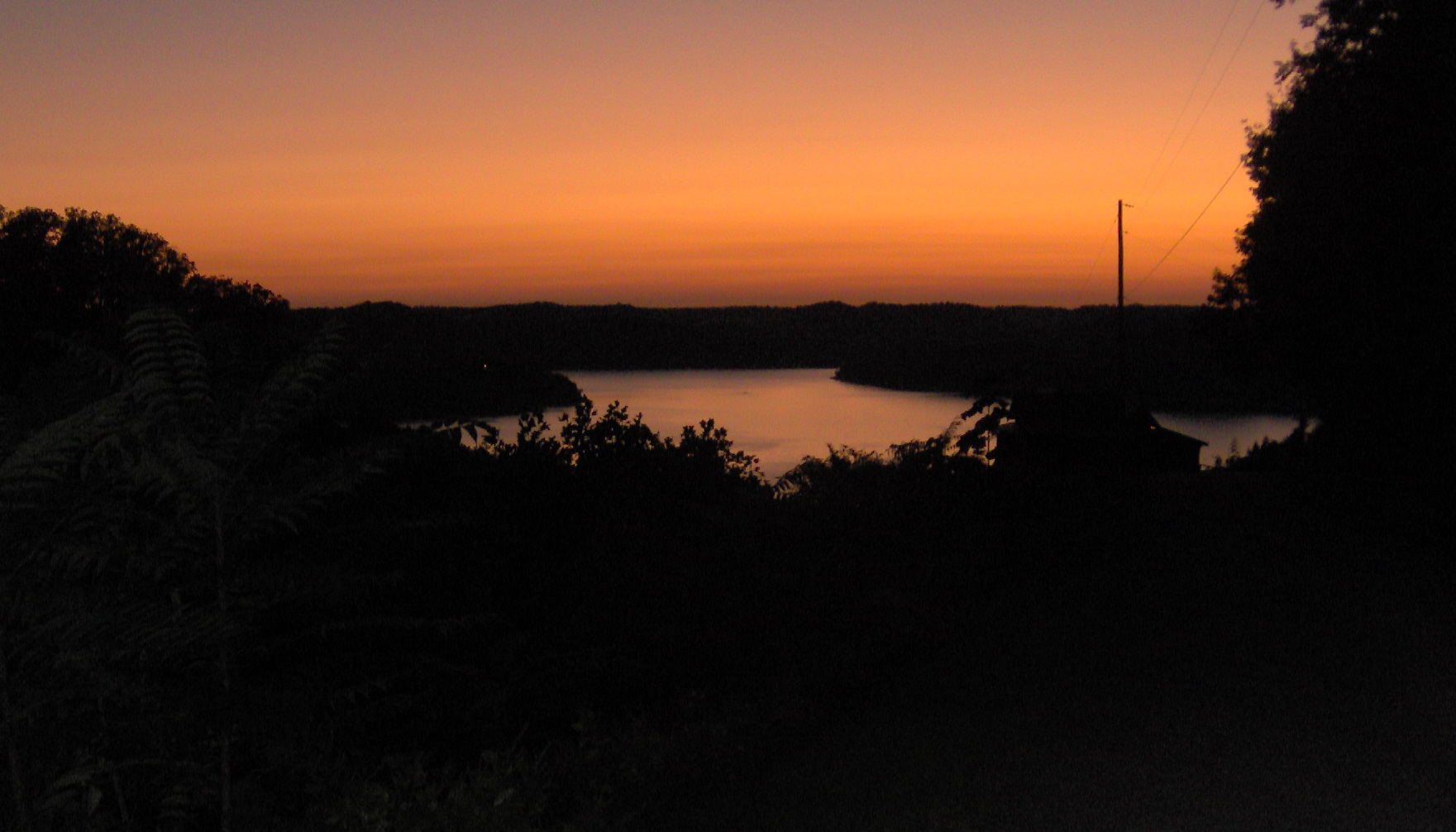 Sunset over Center Hill Lake, viewed from State Highway 56 a few miles south of Silver Point, Tennessee, USA.